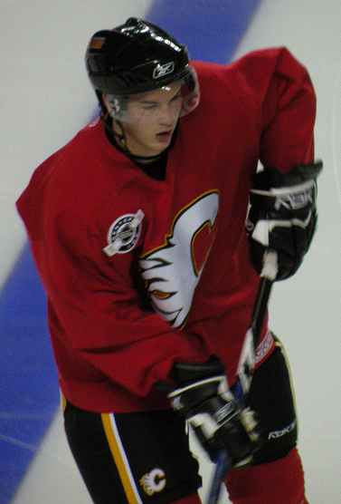 2008 Calgary Flames first round draft pick Greg Nemisz at the Flames rookie camp.